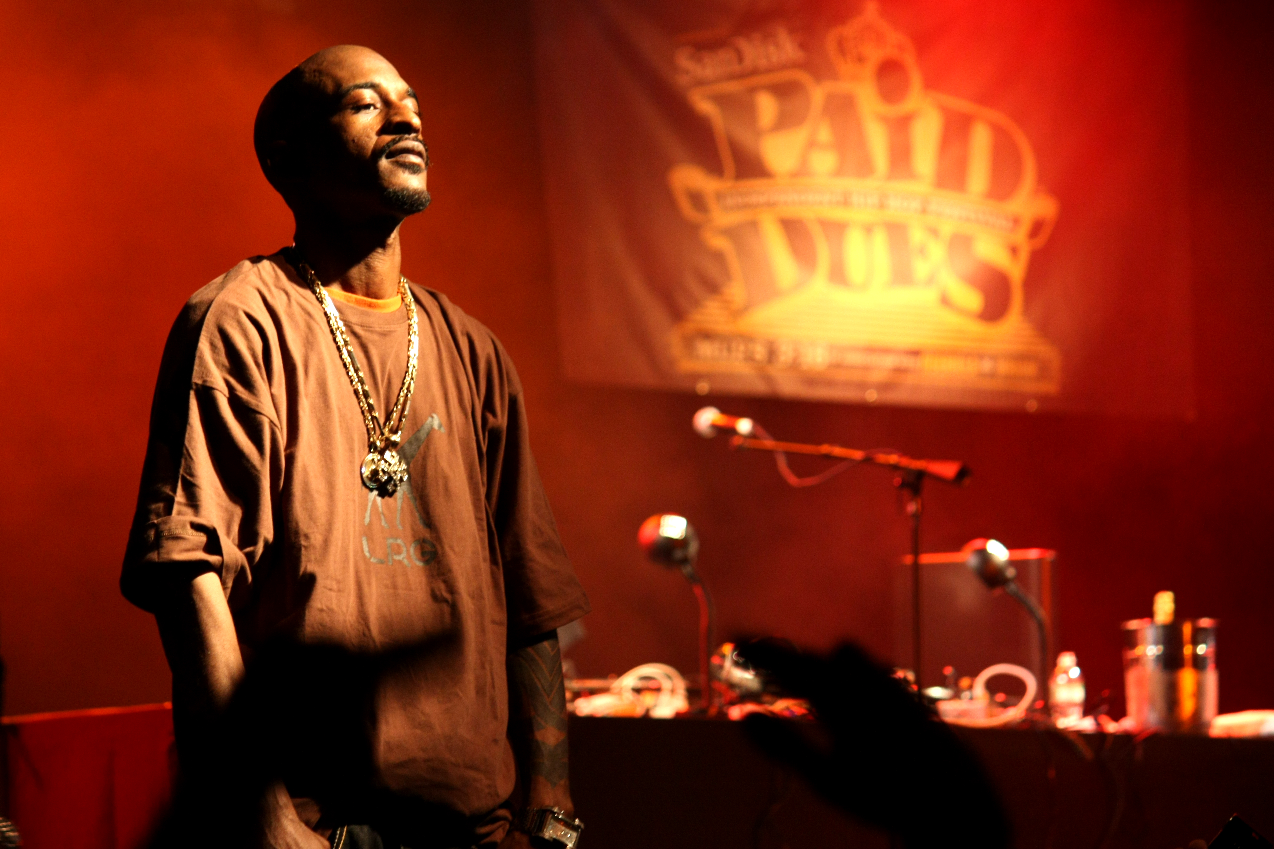 Rakim performing at the Paid Dues hip hop festival at the Nokia Theatre in New York City.